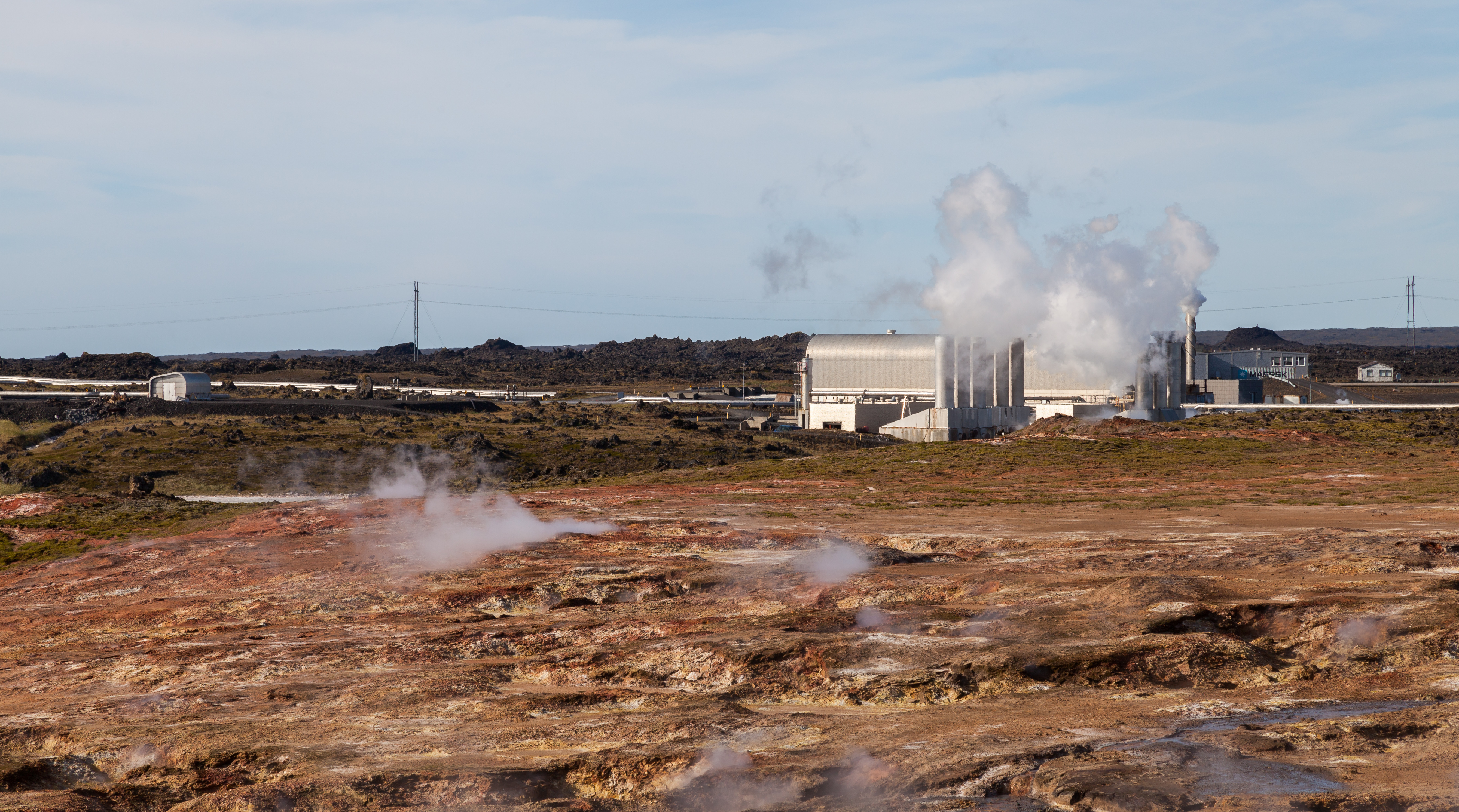 Gunnuhver volcano, Suðurnes, Iceland